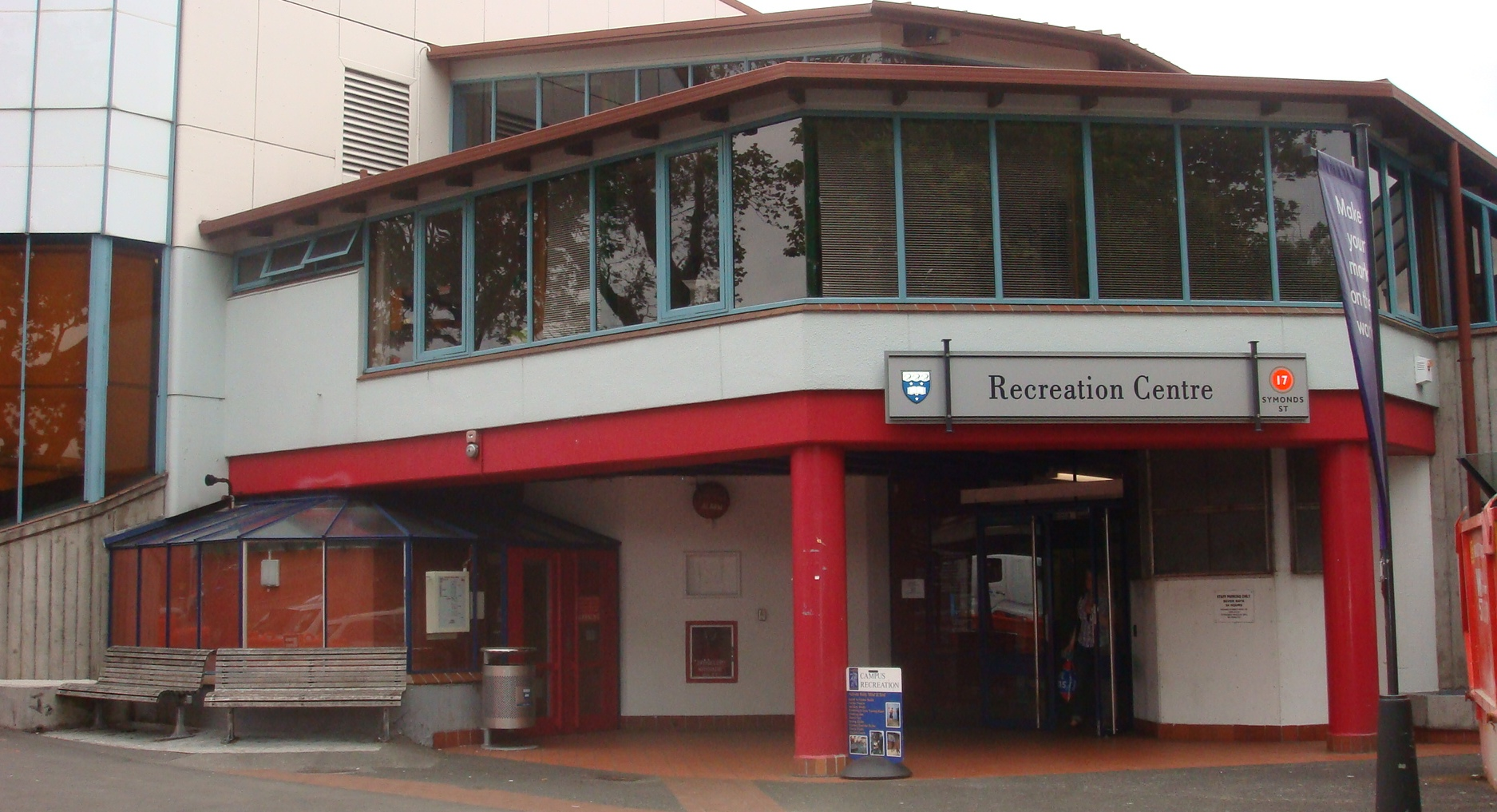 University of Auckland Recreation Centre, showing entrance from Symonds Street (street number is 17).